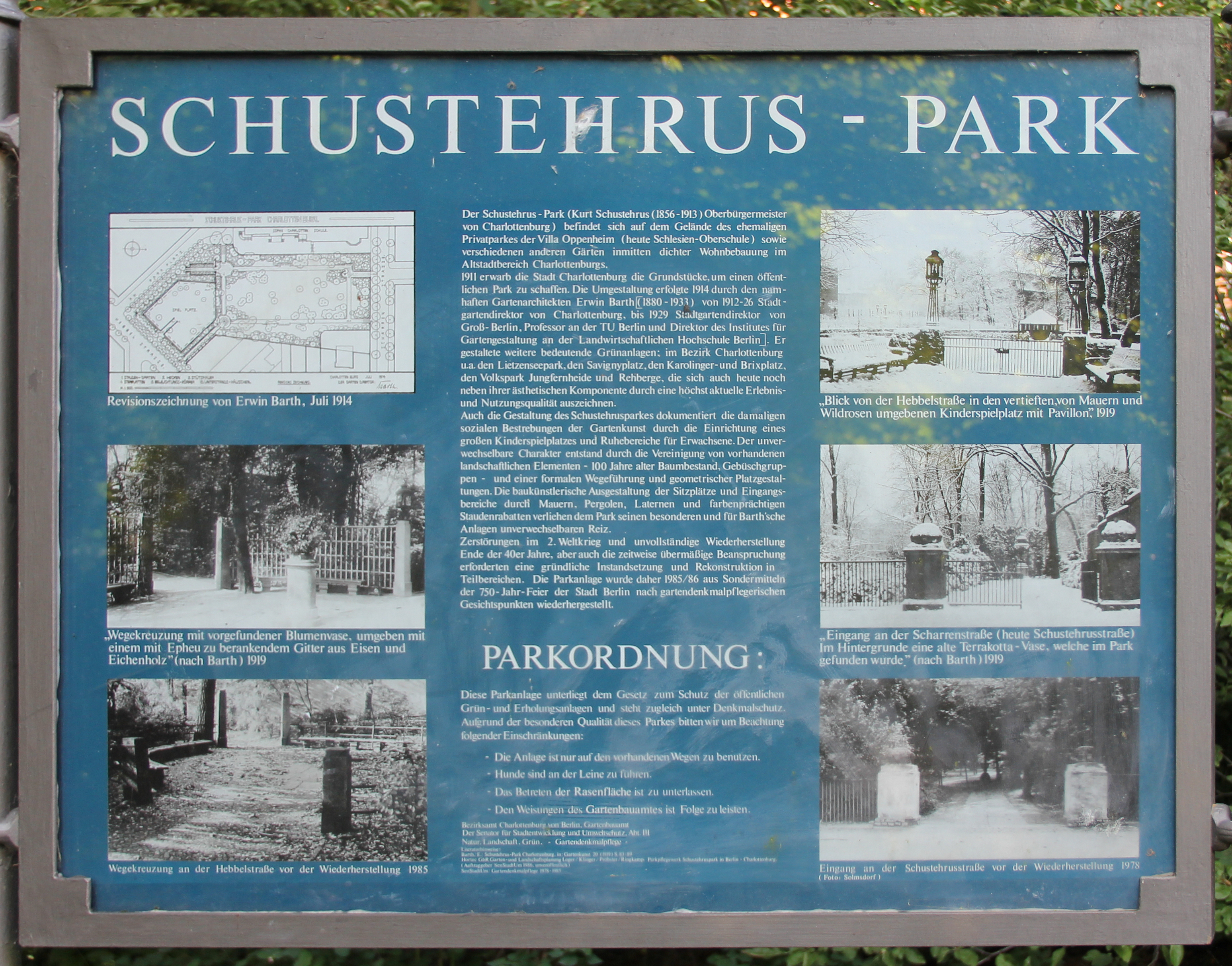 Memorial plaque, Schustehruspark, Schustehrusstraße 33, Berlin-Charlottenburg, Germany